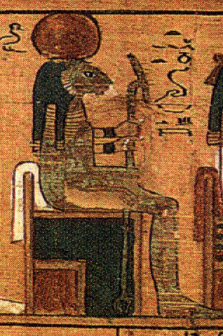 The Weighing of the Heart from the Book of the Dead of Ani. Tefnut.